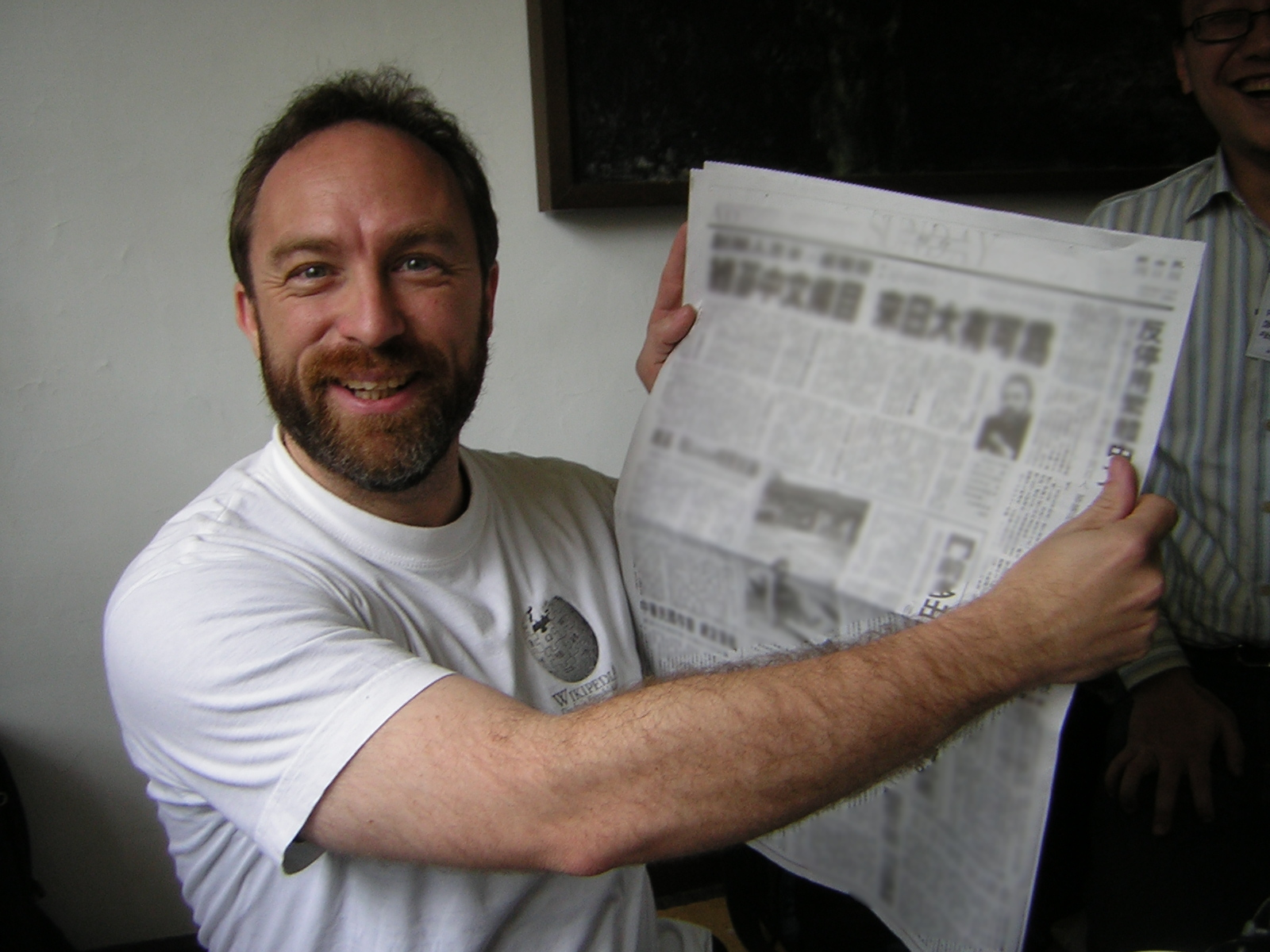 Jimmy Wales holding United Daily News (聯合報) which reported Chinese Wikipedia. Photographed at Wistaria Tea House (紫藤廬), Taipei City, Taiwan.